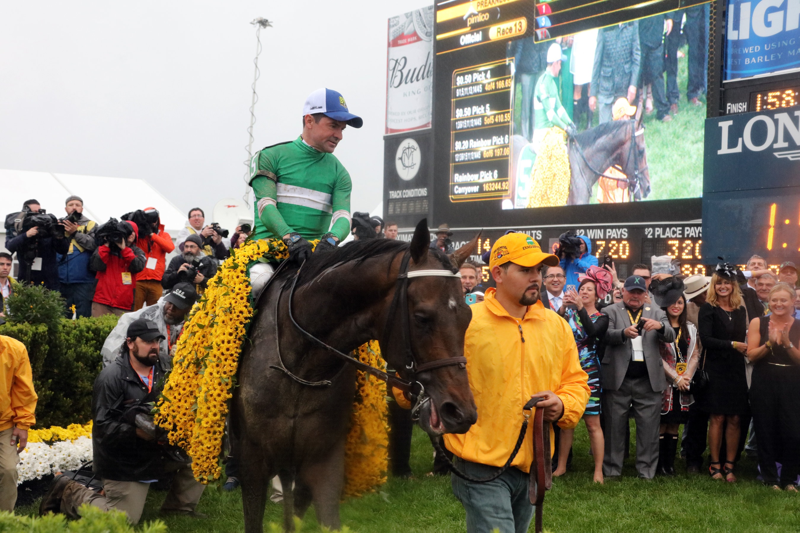 Governor Hogan Attends 2016 Preakness Stakes by Steve Kwak at Baltimore, Maryland Kent Desormeaux and Exaggerator, 2016 Preakness